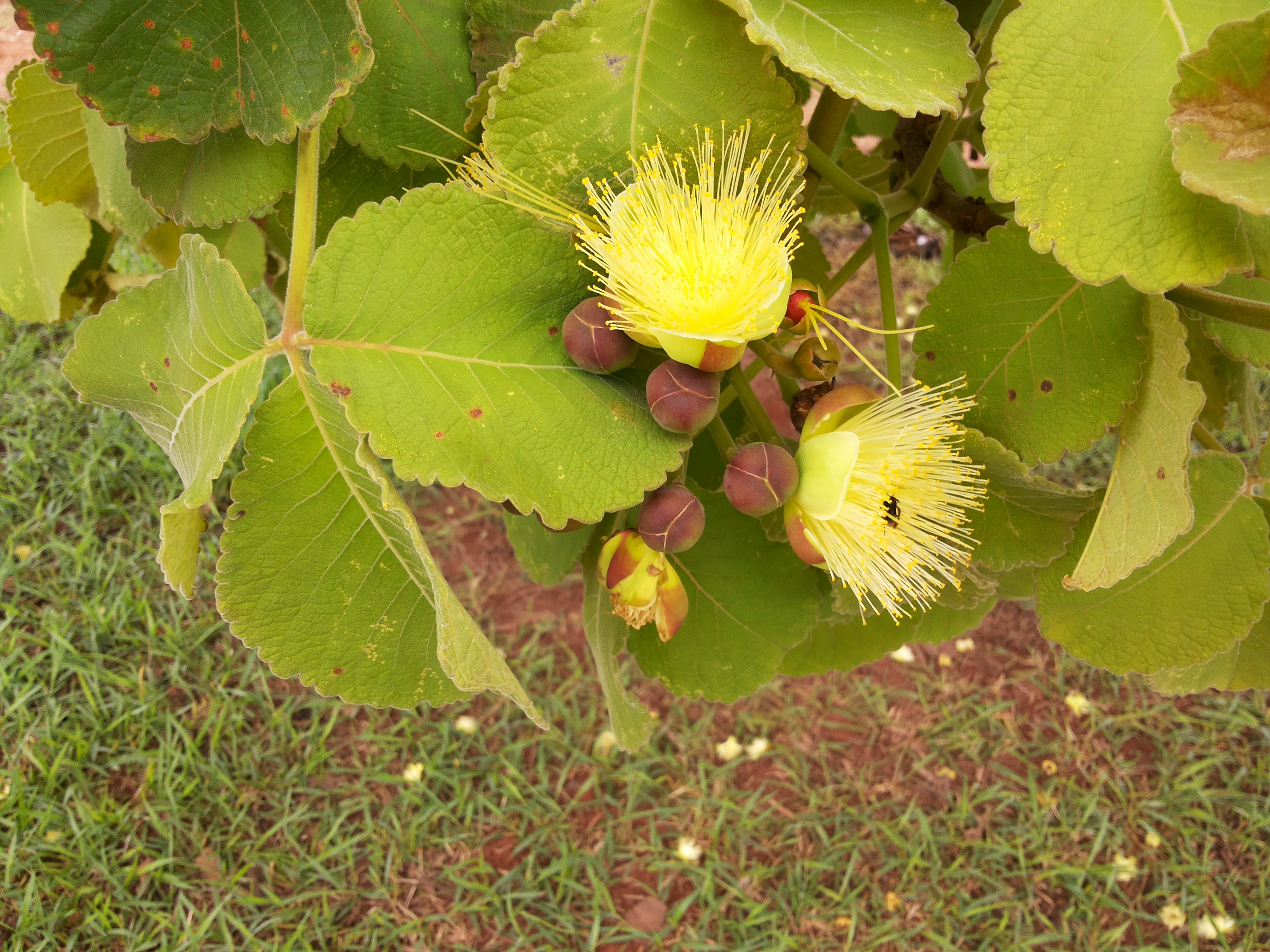 Flor do pequi morada nova miraporanga uberlândia